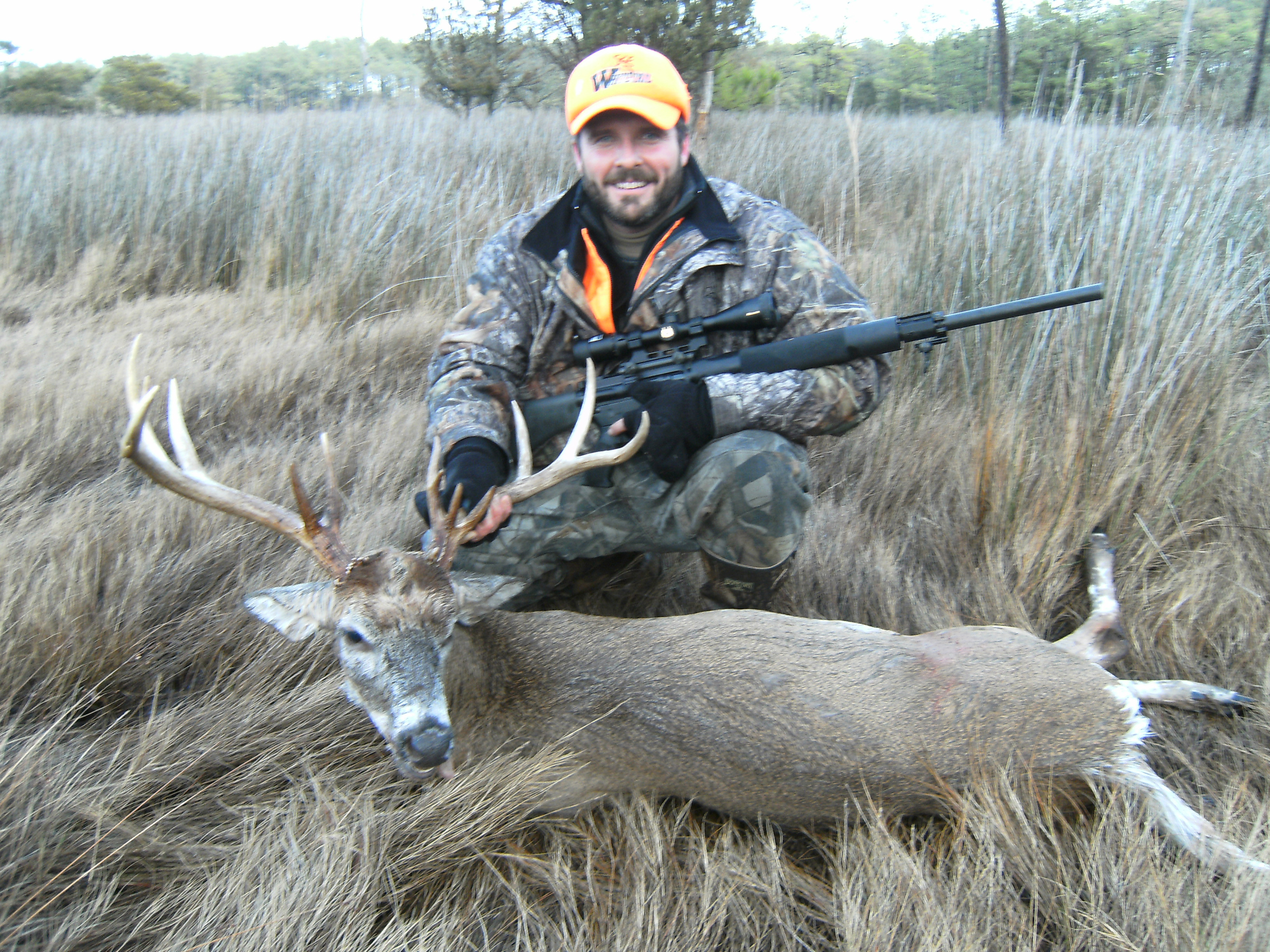 Odocoileus virginianus hunting. Taken with K8-MAG 243 WSSM